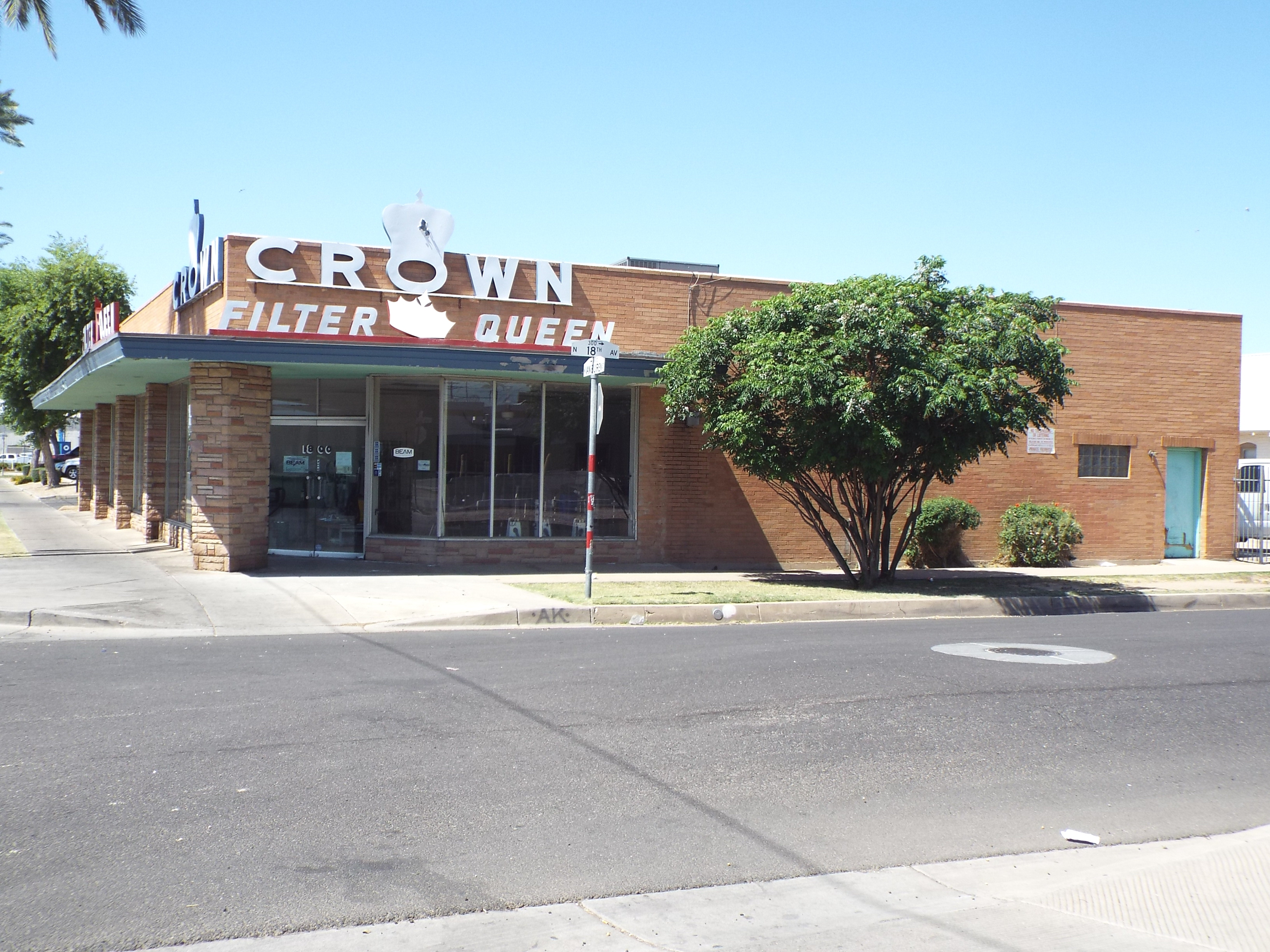 The Crown Filter Queen Building was built in 1955. It is located at 1800 W. Van Buren Ave. in Phoenix, Arizona. The builders used clay brick and ashler sandstone. The building is listed in the National Register of Historic Places in July 10, 1992, reference #92000847, as part of the Oakland Historic District.